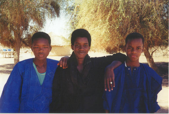 Fulbe youth (Fula youth), Mauritania